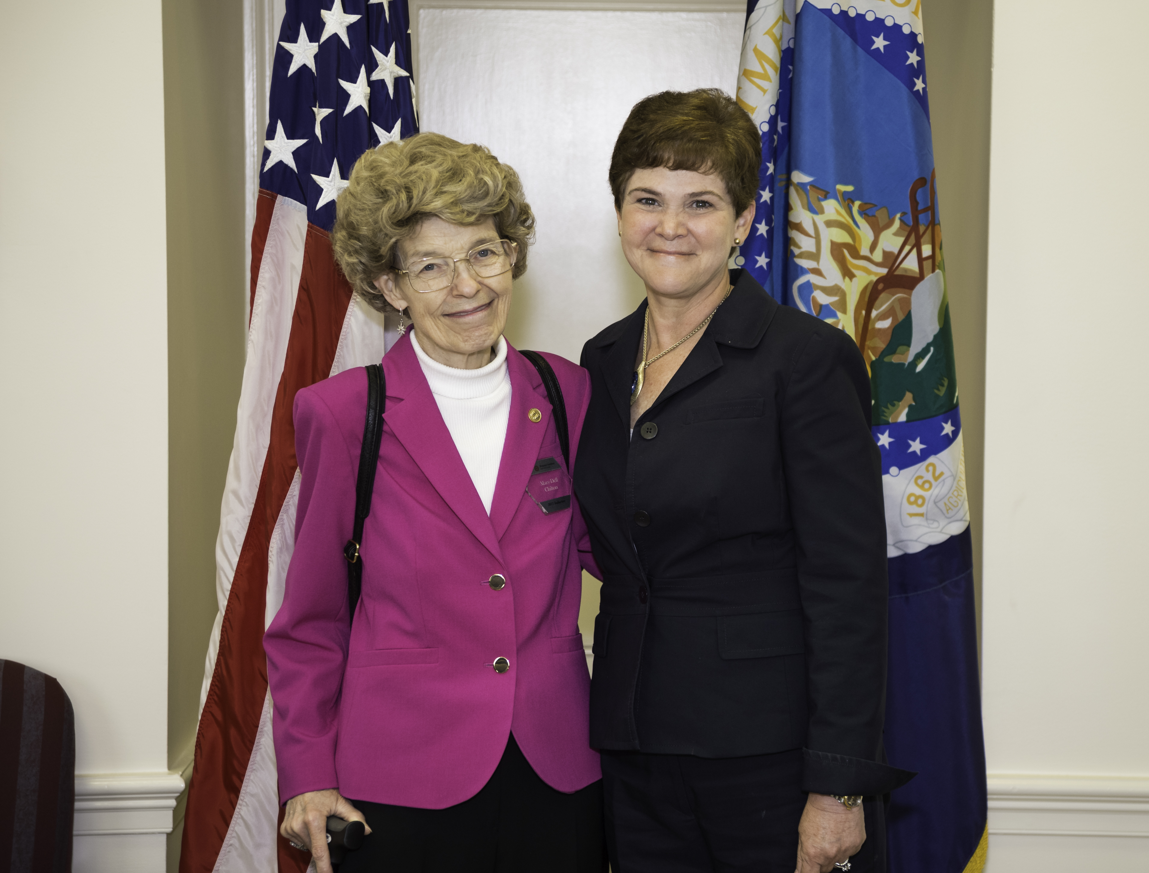 Mary-Dell Chilton meets with Agriculture Deputy Secretary Krysta Harden at the U.S. Department of Agriculture (USDA) in Washington, D.C. on Tuesday, May 12, 2015.